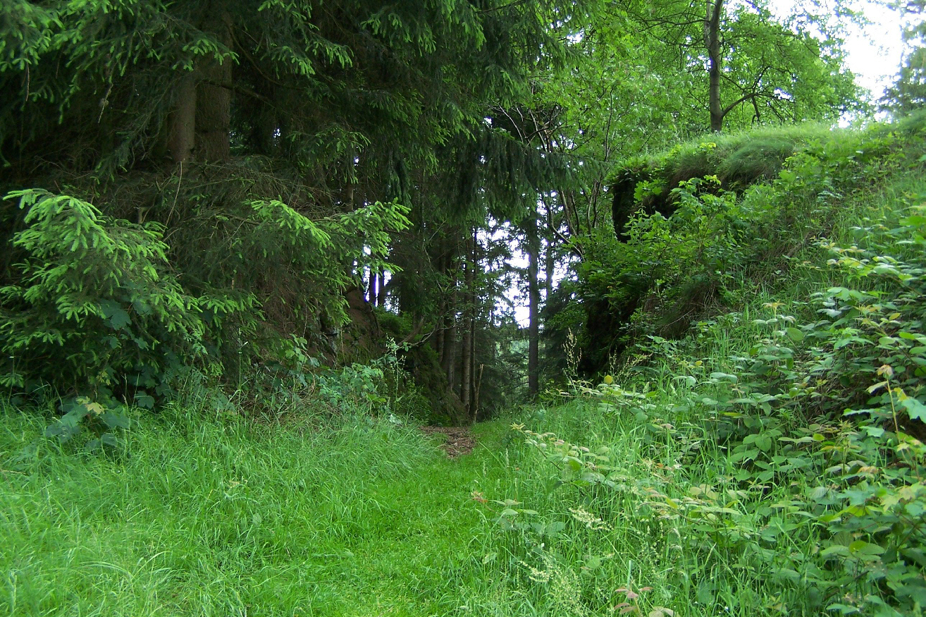 At Schwarzwald castle.